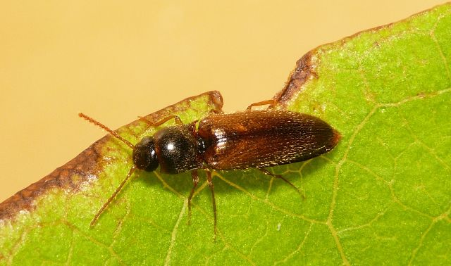 Adrastus pallens, female. Location: The Netherlands - Wageningen - Plasserwaard